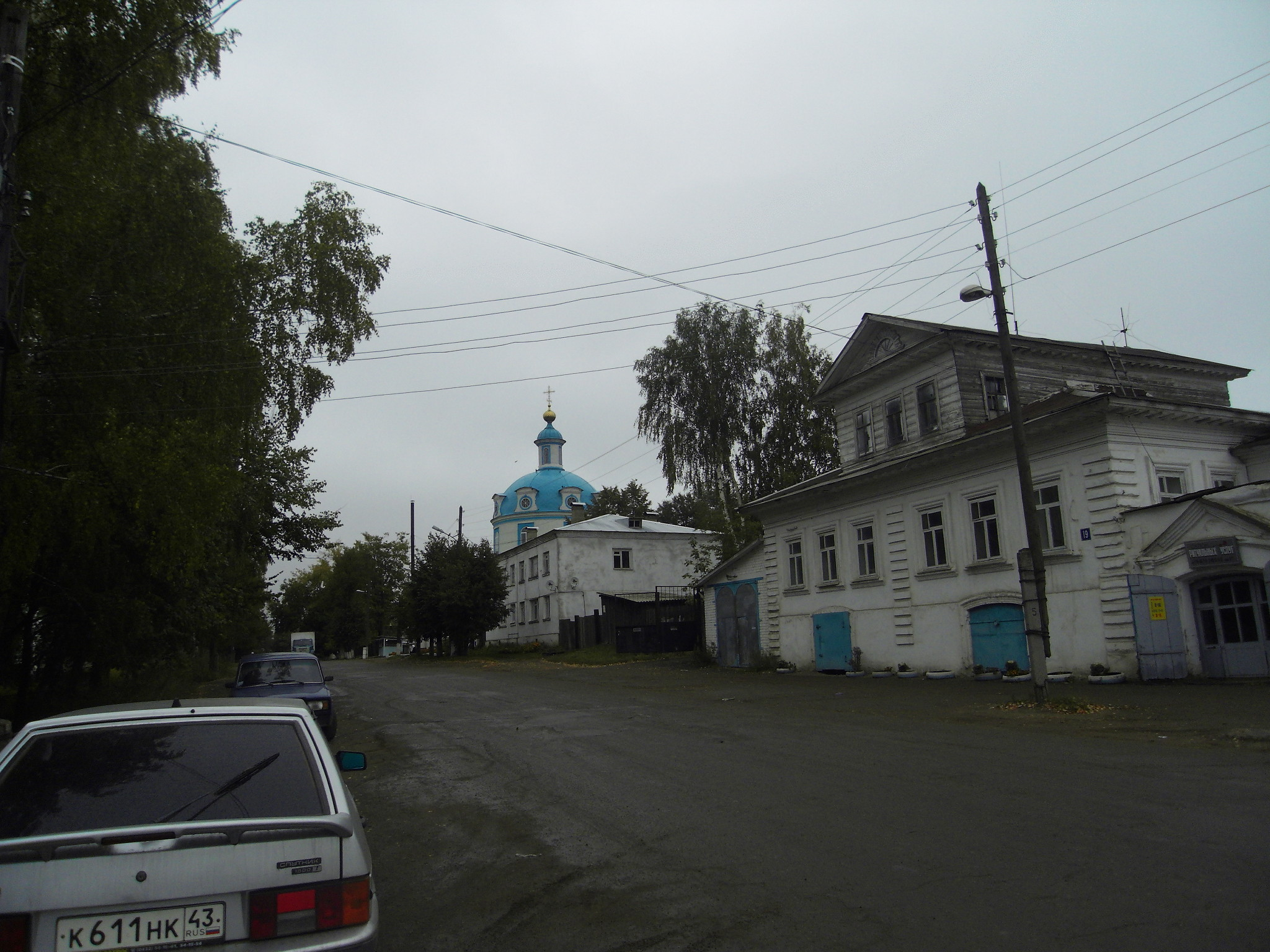 Karl Marx street and the Cathedral of the Dormition of the Theotokos in Yaransk, 1798